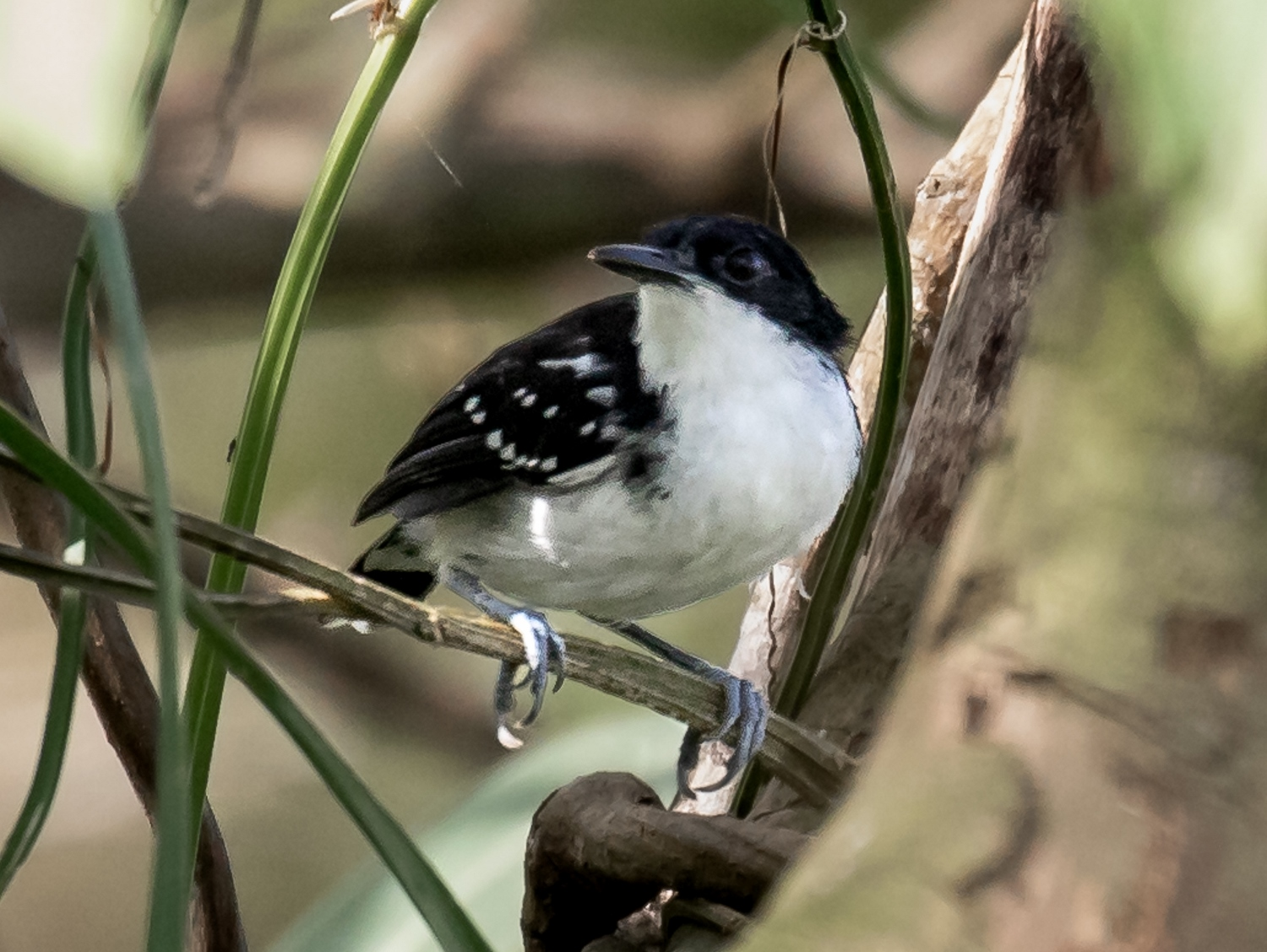 Black-and-white antbird (male); Marchantaria island, Iranduba, Amazonas, Brazil